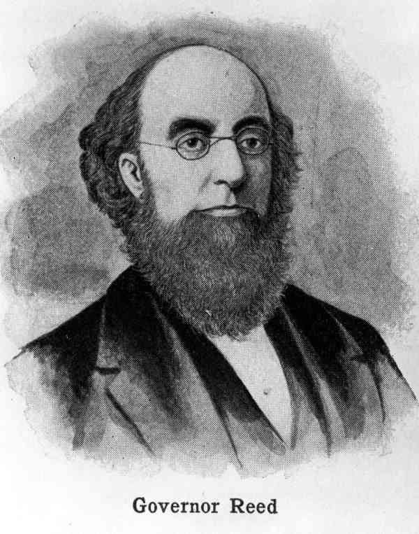 This image was taken from the Florida Photographic Collection where it is image GV000505. Its image description is found below: [Drawn portrait of Florida's 9th Governor Harrison Reed] [graphic] Leader: kmKa0c Fixed field data: kh bz Fixed field data: 990604q18681873 in d Local call number: GV000505 Title: [Drawn portrait of Florida's 9th Governor Harrison Reed] [graphic] Publication info: Between 1868 and 1873. Physical descrip: 1 photoprint : b&w ; 10 x 8 in. Series Title: (Reference collection) General Note: He served as Florida's 9th Governor from July 9, 1868 until January 7, 1873. Personal subject: Reed, Harrison, 1813-1899--Portraits. Corporate subject: Florida. Governor (1868-1873 : Reed) Subject term: Governors--Florida--Portraits. Subject term: Drawing. Geographic term: Florida.